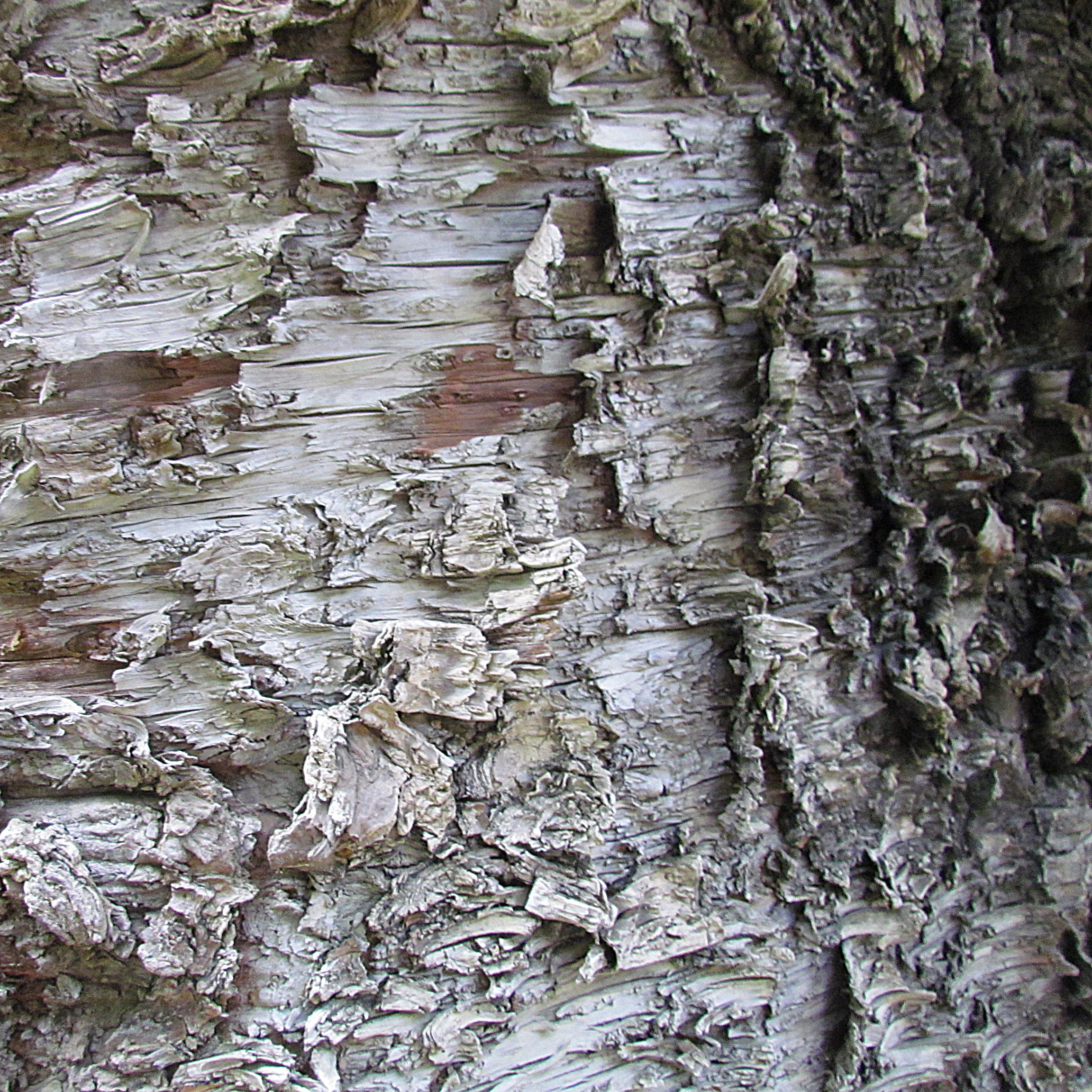 Araucaria columnaris bark